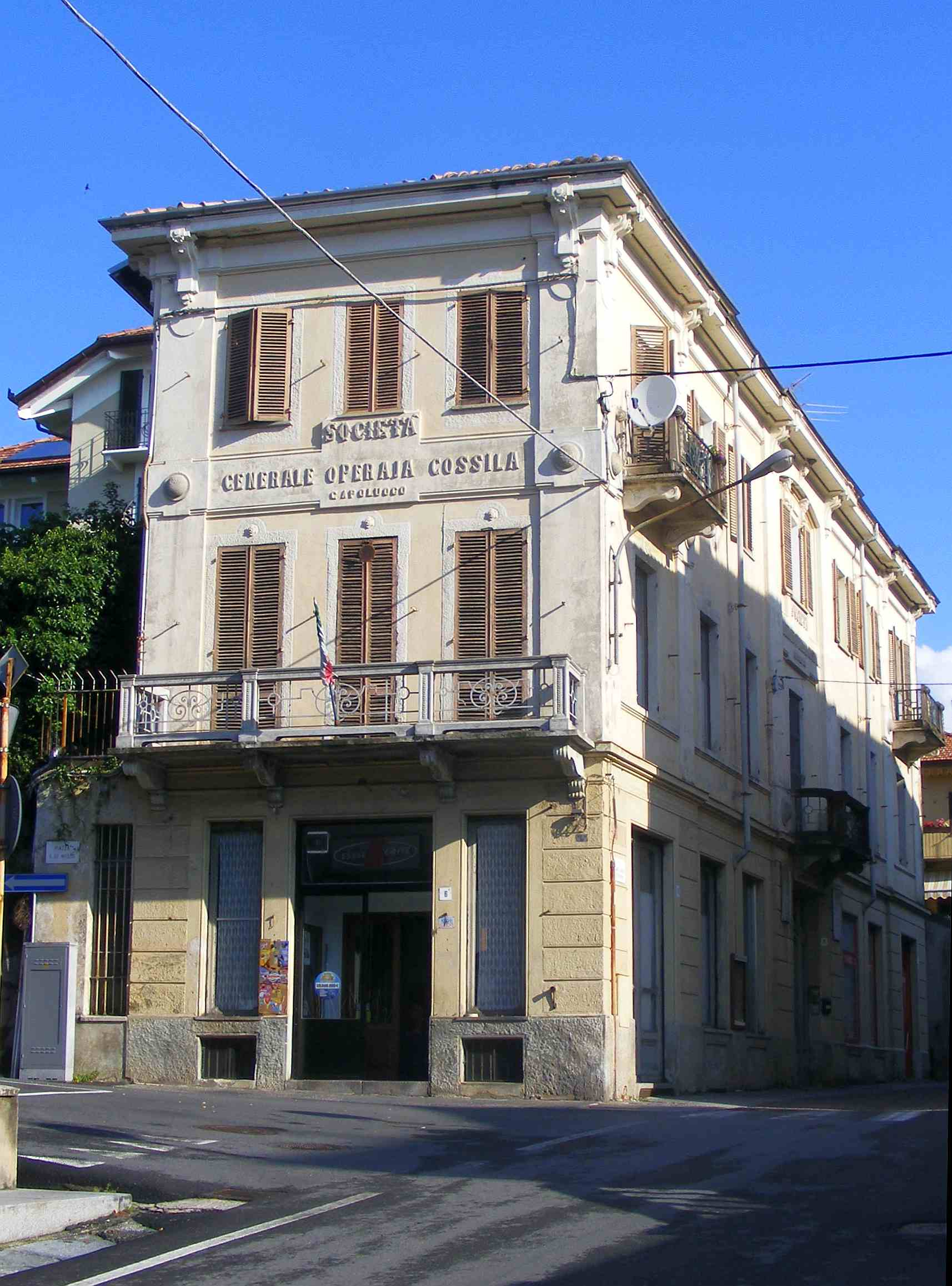 Cossila San Grato (BI, Italy): mutual society former headquarters